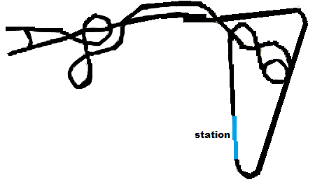 track of Monster (walygator parc)